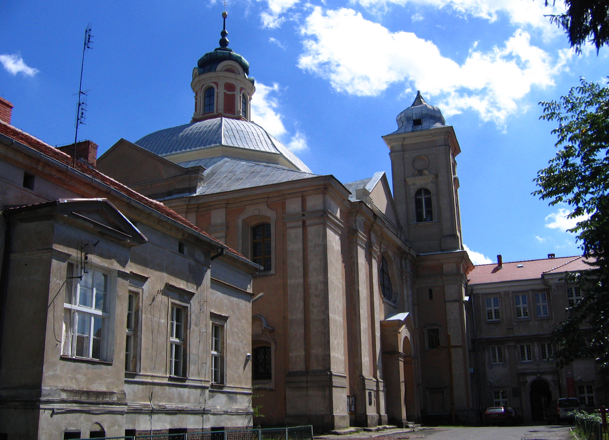 St. John the Baptist Church, Owińska